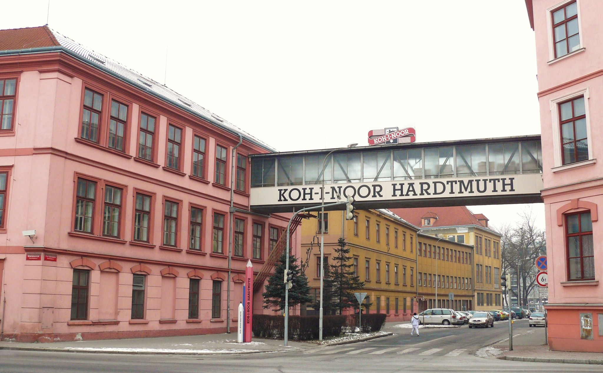 Koh-i-Noor Factory, Ceske Budejovice.